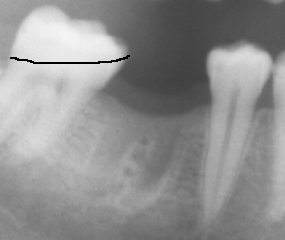 Prosthetic tooth equator. Secondary findings: The bone compartments of the first molar are not completely ossified again after tooth extraction. X_Ray of an empty space in the jaw where a tooth has been lost